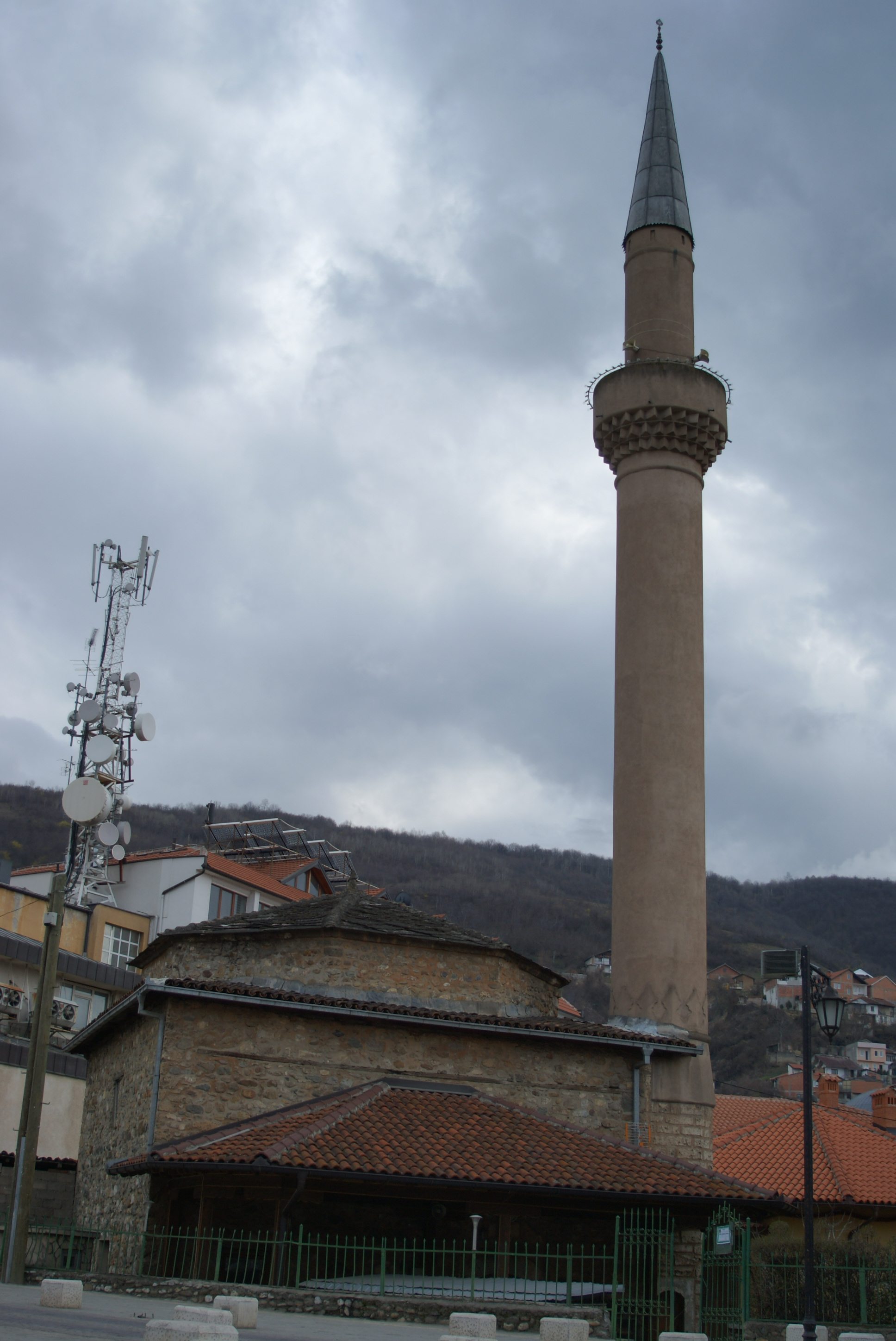 Xhamia e Kuklibeut